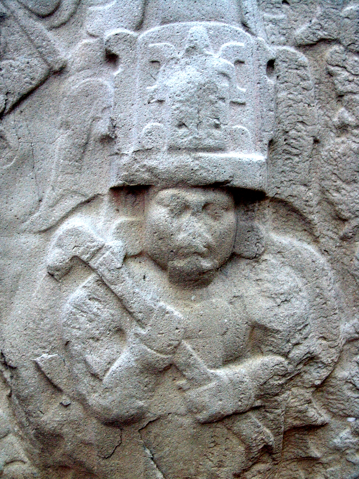 Olmec Chief or King(?). Relief from La Venta Archeological Site